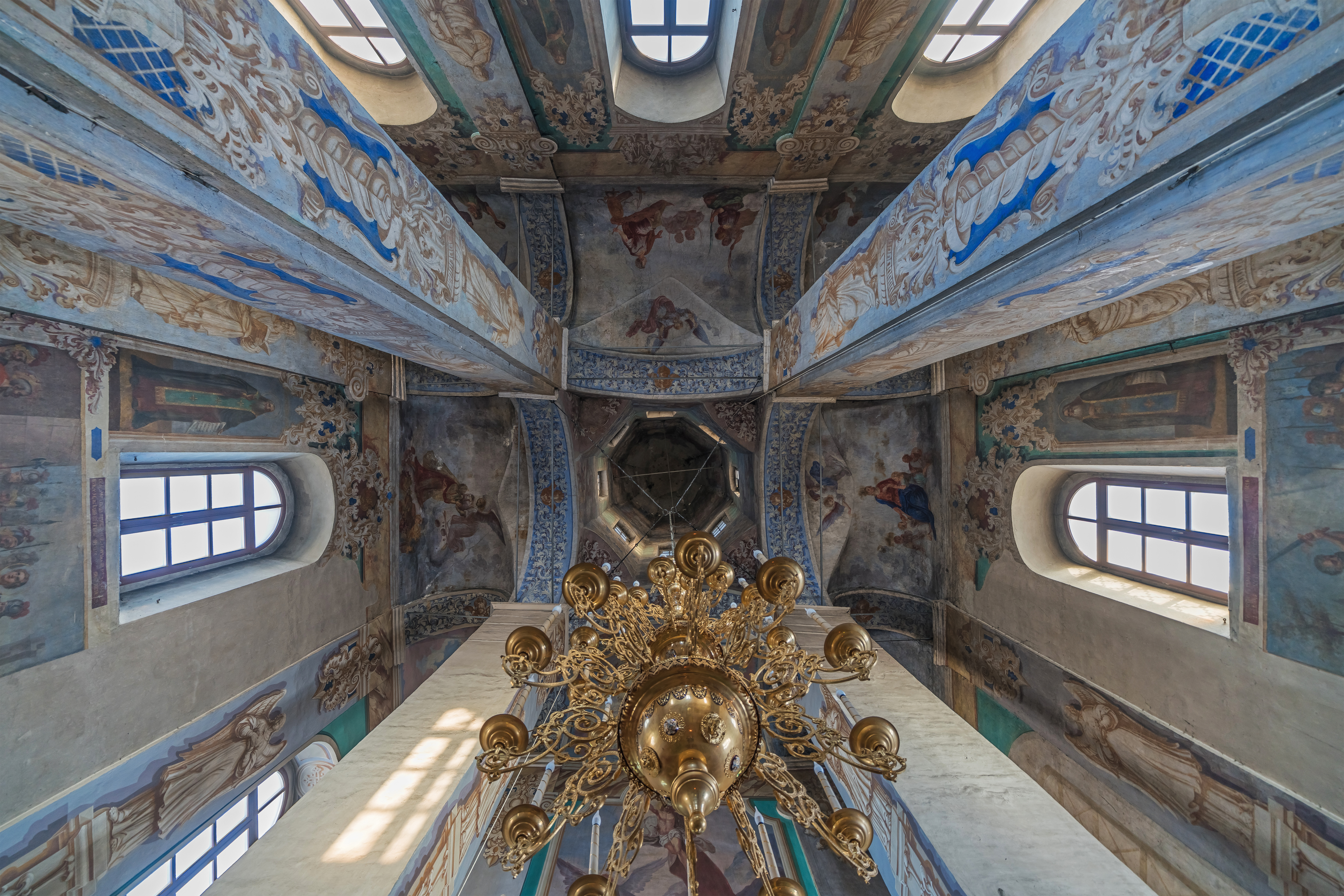 St. George Church in Vladimir, Russia